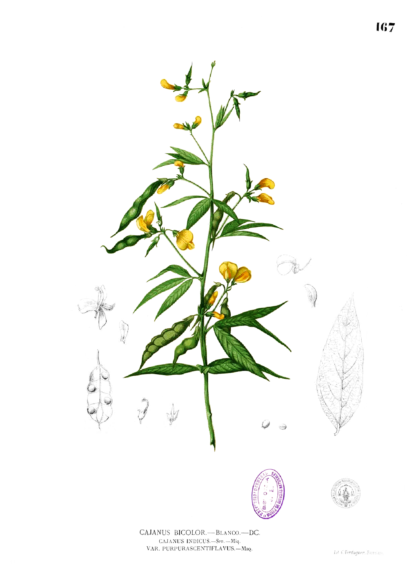 Plate from book